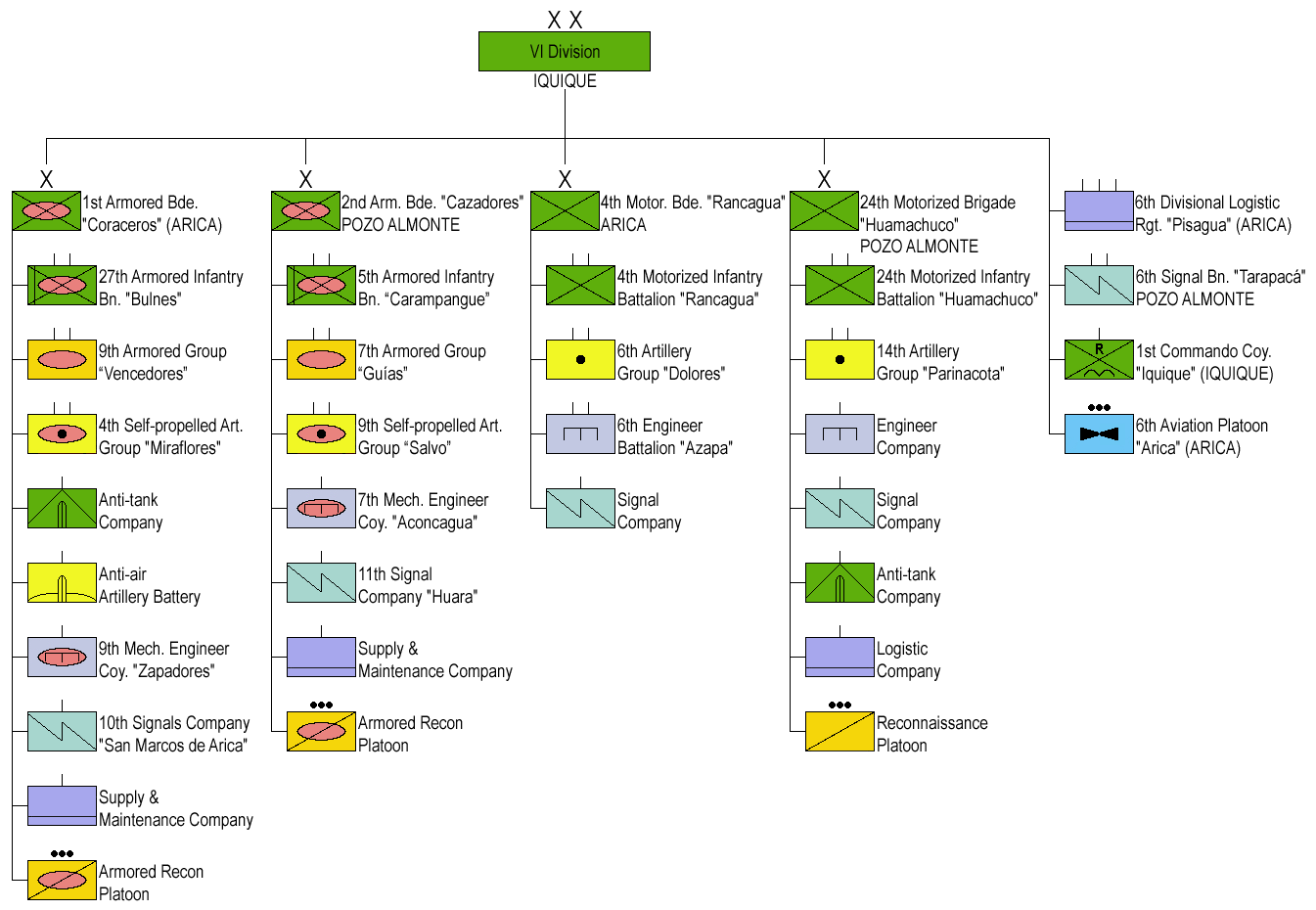 6. División del Ejército de Chile